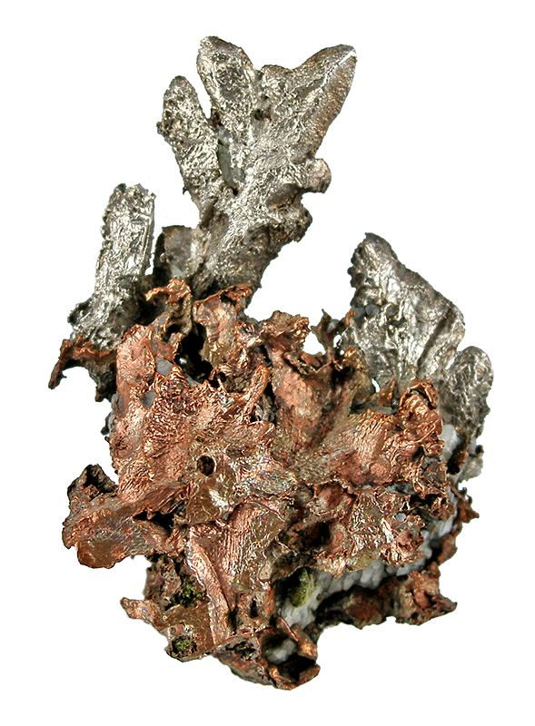 Copper, Silver Locality: Calumet & Hecla Mine, Calumet, Calumet Township, Houghton County, Michigan, USA (Locality at ) Size: miniature, 4.2 x 2.9 x 1.5 cm Silver on Copper A crudely formed copper crystal with very minor prehnite has become the matrix for two very sharp, feather-like, aesthetic growths of native silver to 2.5 cm in length. This silver growth is reminiscent of classic specimens from this Kearsarge Amygdaloidal Lode. This combination of copper and silver, while not uncommon, makes for a superb minature because it IS uncommon in aesthetic specimens with well crystallized silver atop. Usually, the mixes are just lumps. Ex. John Durkos Collection.